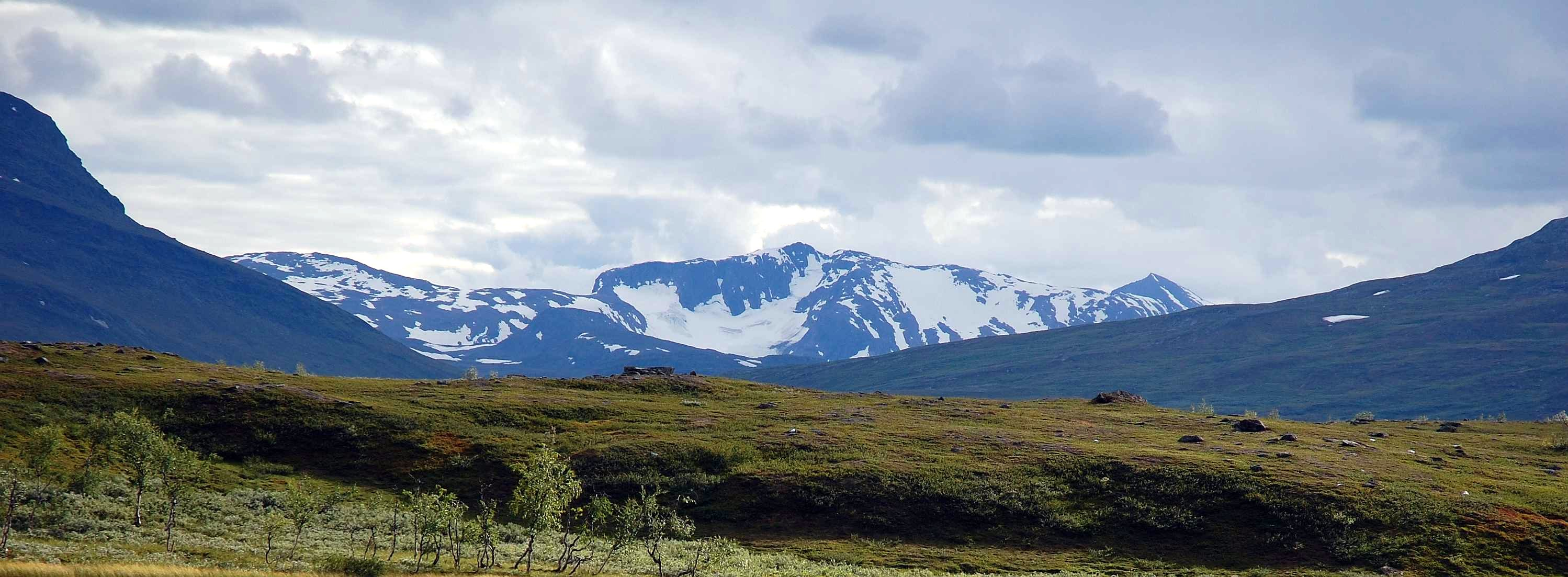 Swedish part of Sulitelma seen from Padjelanta